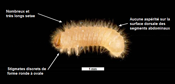 Lasioderma serricorne larva